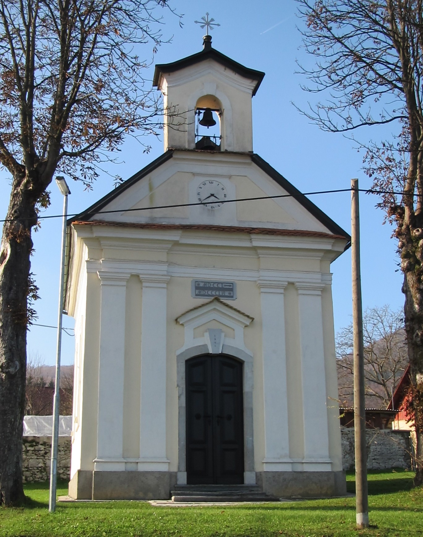 Chapel in Čušperk, Municipality of Grosuplje, Slovenia